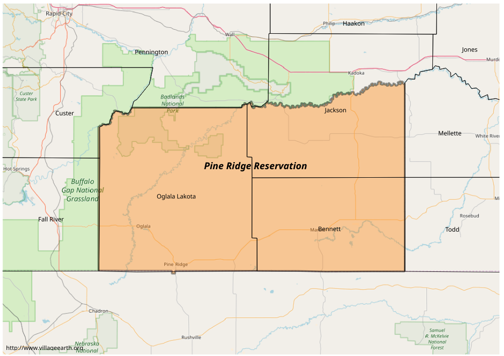 The Pine Ridge Reservation in South Dakota including South Dakota Counties and basemap from Open Street Map.